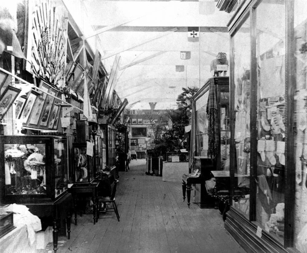 Fine Arts on display at the first Queensland Intercolonial Exhibition, Brisbane, 1876 The walls of the main exhibition building are covered with paintings and photographs entered under the 'Fine Arts' section of the exhibition. The glass case on the left contains millinery of the kind that earned a first-class certificate for exhibitor Madame Harrie of Brisbane. The case surmounted by the stuffed ram at the right of the picture was part of the display of Messrs John Vicars and Company of Sydney. This company produced fine tweed cloth and shawls hanging from the corners of their show-case, are examples of the work which was produced during the exhibiton on their Jacquard power loom. (Description supplied with photograph.).